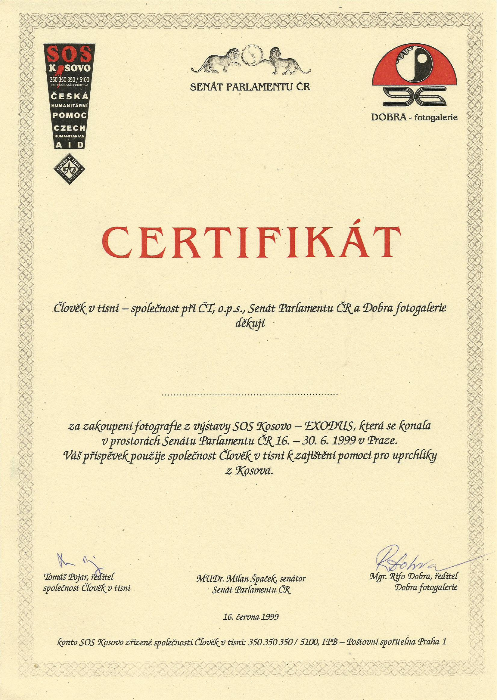 Certificate from the 1999 exhibition in support of Kosovo refugees.